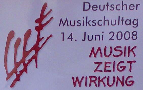 Logo of the German music school day